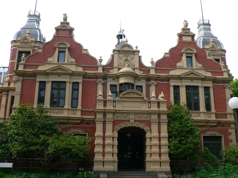 Melbourne University 1888 buildings.